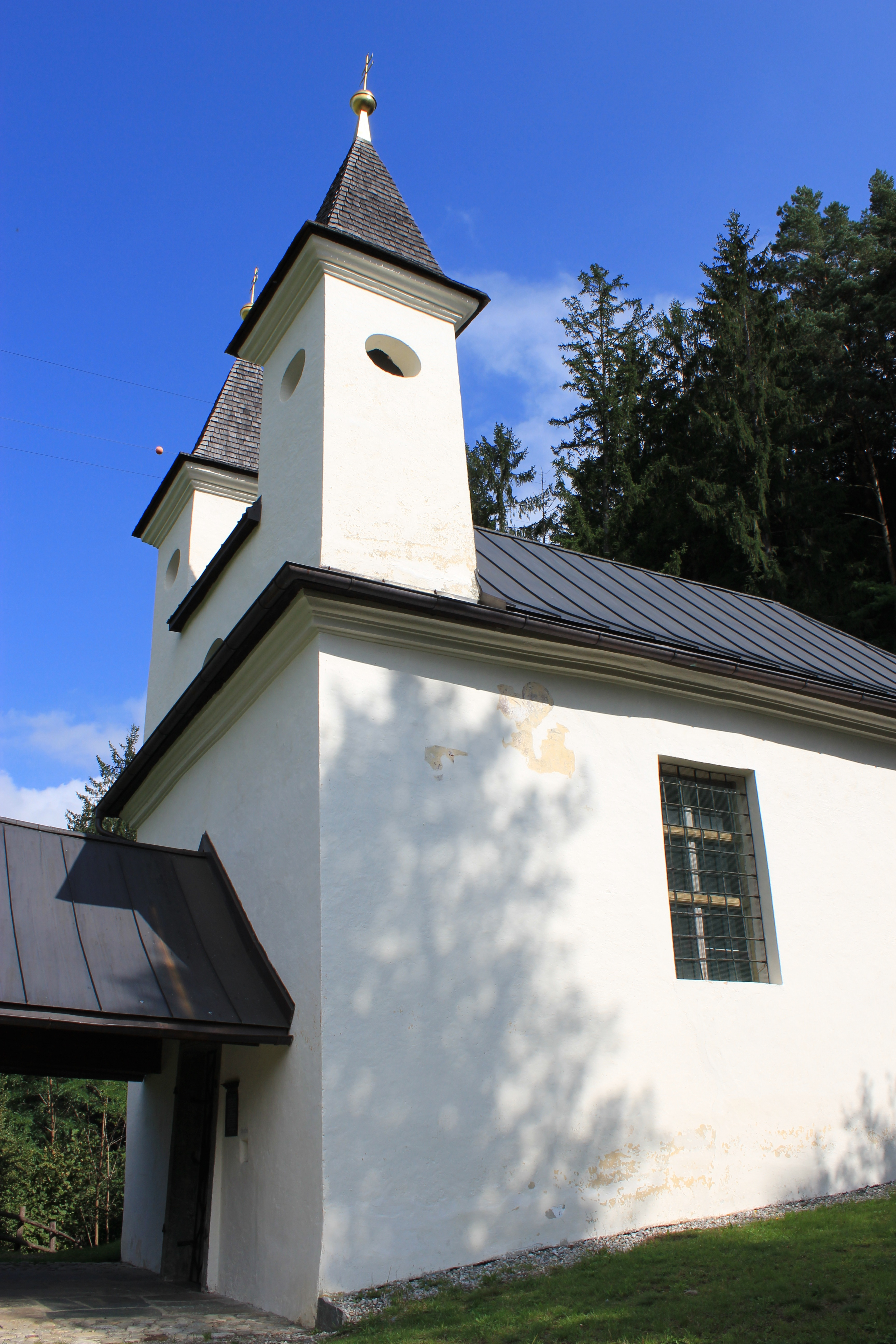 Calvery chapell in Gmünd